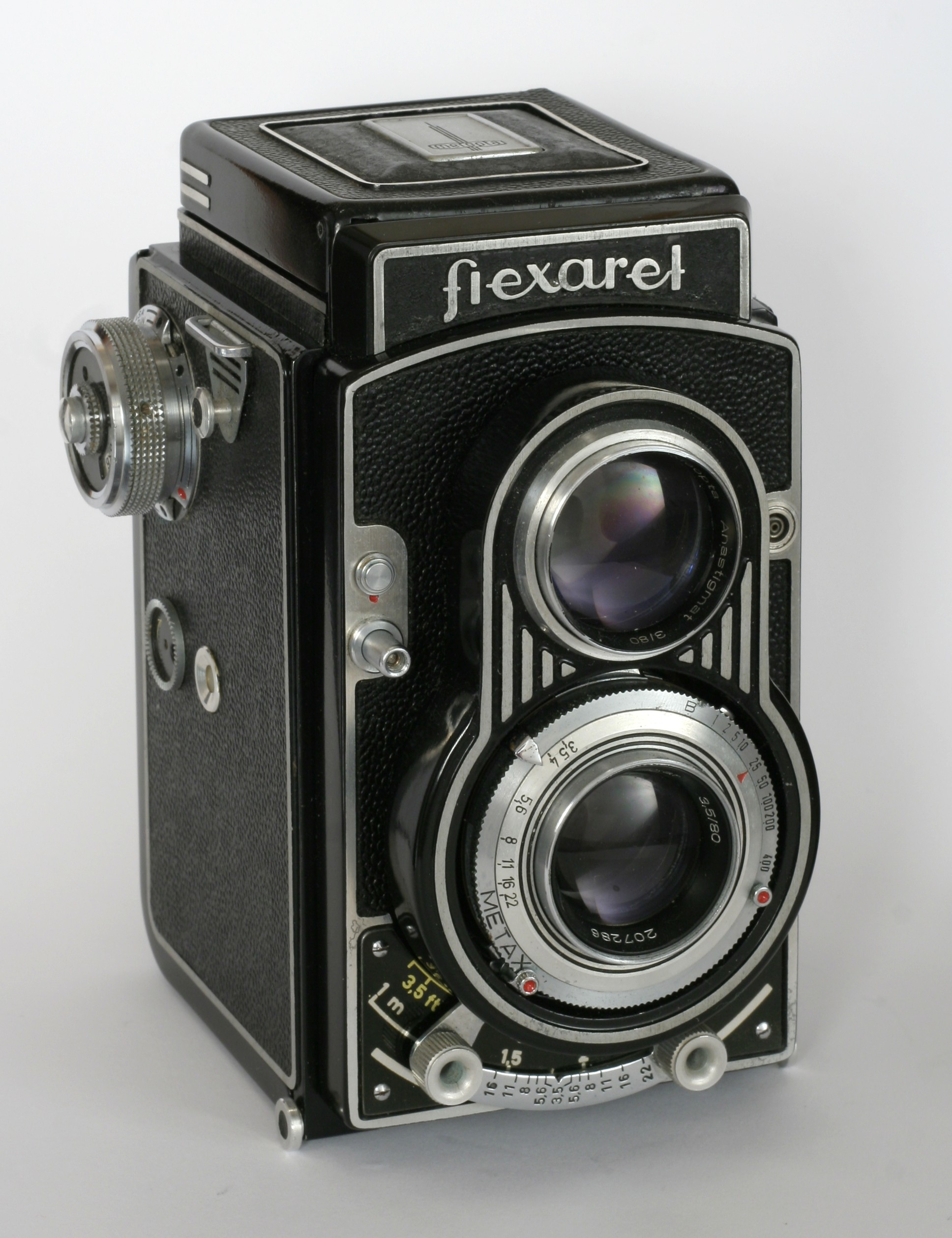 Antique Camera Flexaret Va